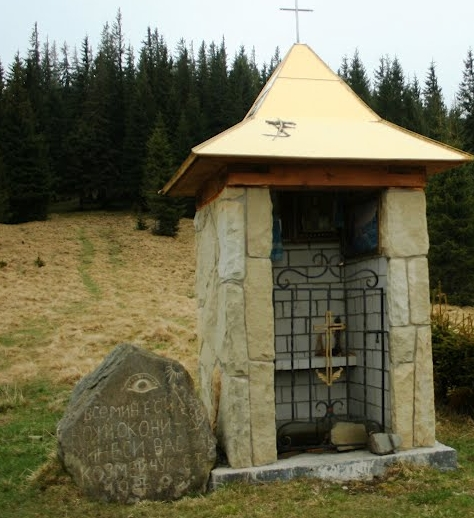 God eye in West Ukraine (Ukrainian Carpathian) near village Mykulychyn.. Inscription at stone translated from old Ukrainian dialect into Enfglish - "All will pass but God eye does not pass you.". May be it is image of Freemasonry ??????